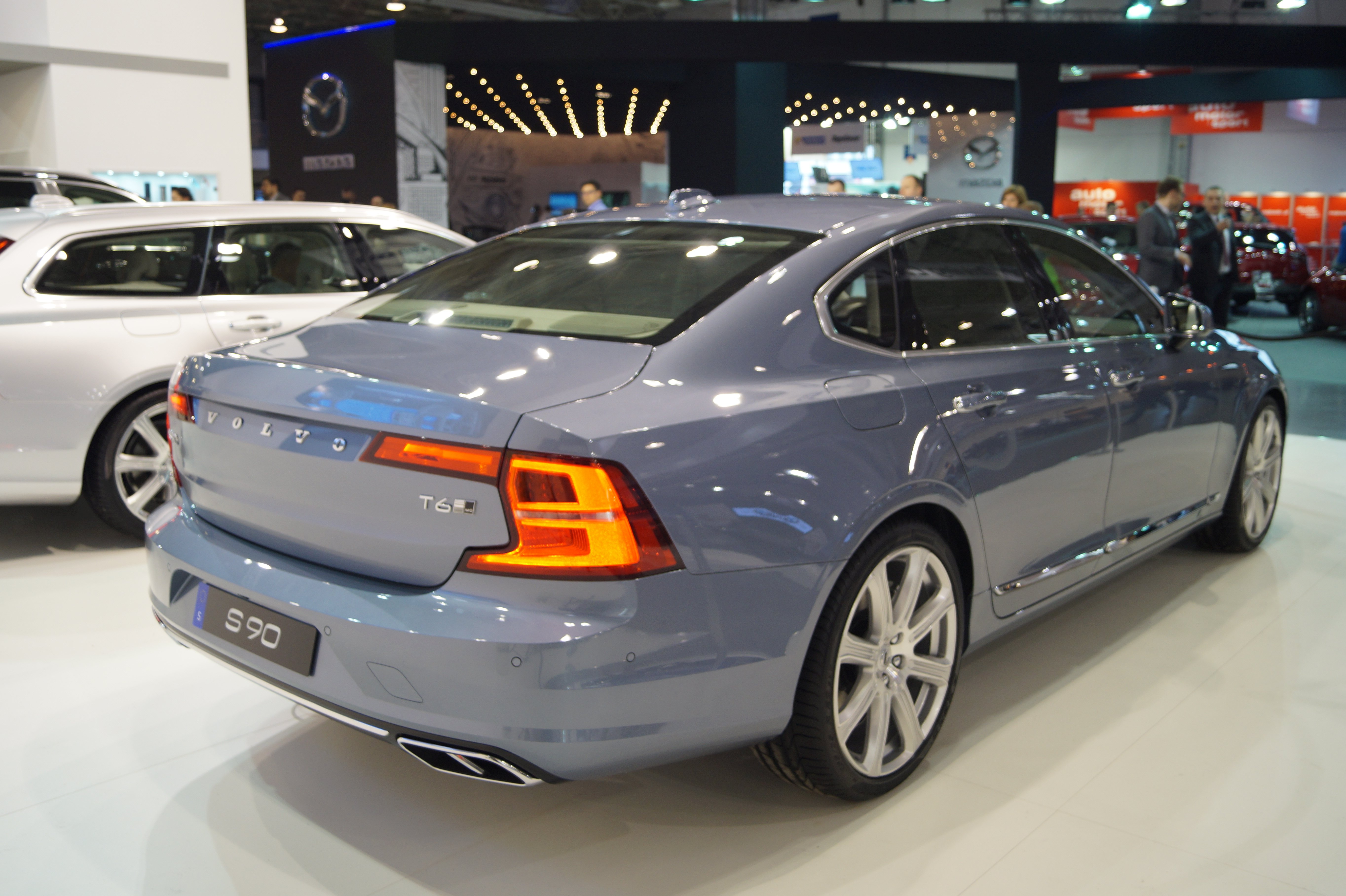 The making of this document was supported by Wikimedia Polska Association, within Wikigrant no. WG 2016-10. Tył Volvo S90 na Motor Show Poznań 2016